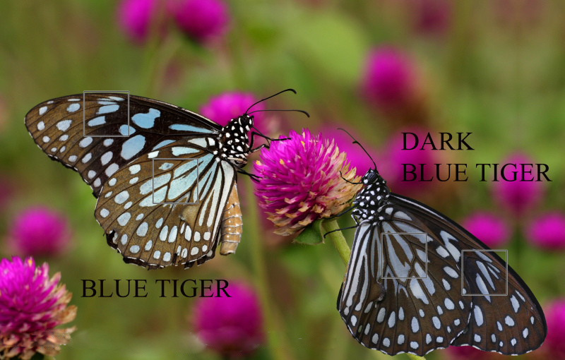 BLUE TIGER (Tirumala limniace) and DARK BLUE TIGER (Tirumala septentrionis) are two similar species of butterflies which are equally common in this part of the country(kerala) though the population of one particular species might vary according to the season. These species are wrongly identified even by the experts, one of the popular books in malayalam has a Dark blue tiger picture instead of a Blue tiger and a recent article in a popular malayalam periodical had the same mistake again to confess I had made a lot of mistakes regarding this and guess stand corrected now see the four comparison pics and the differentiation is as simple as that! Thanks to Dr Krushnamegh Kunte who shared the "keys"; during our recent edamalayar mannavanshola trip.